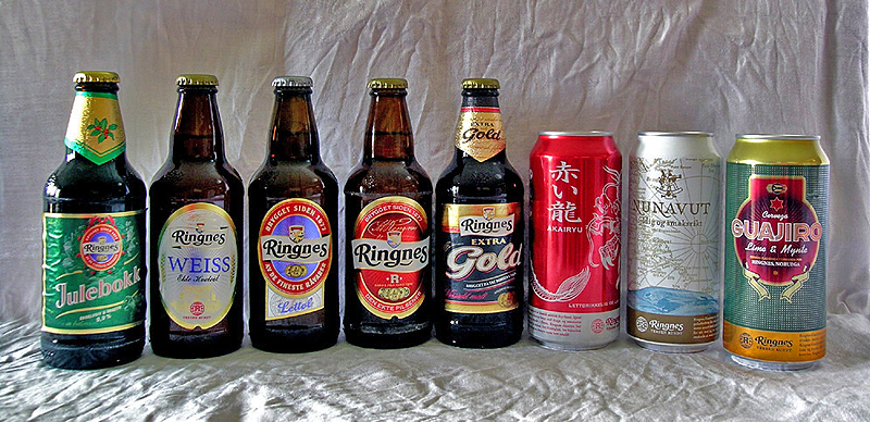 Beers from Ringnes breweries, Norway.